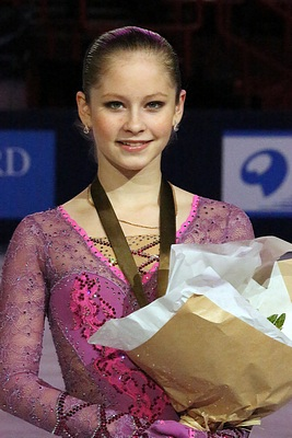 Yuliya Lipnitsкaya at the Trophee Eric Bompard 2012